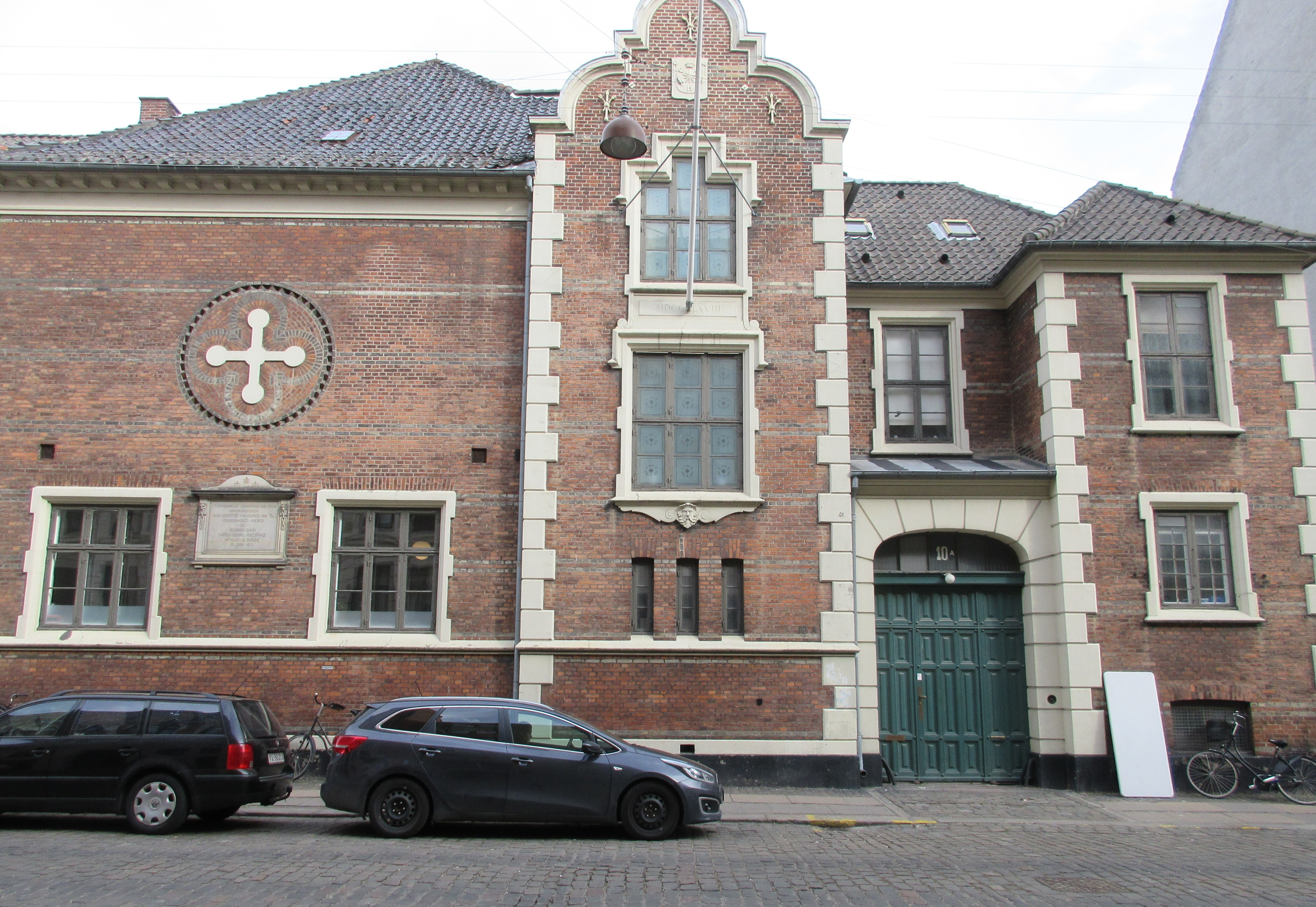 Selskabet Kjæden in Klerkegade in Copenhagen, Denmark